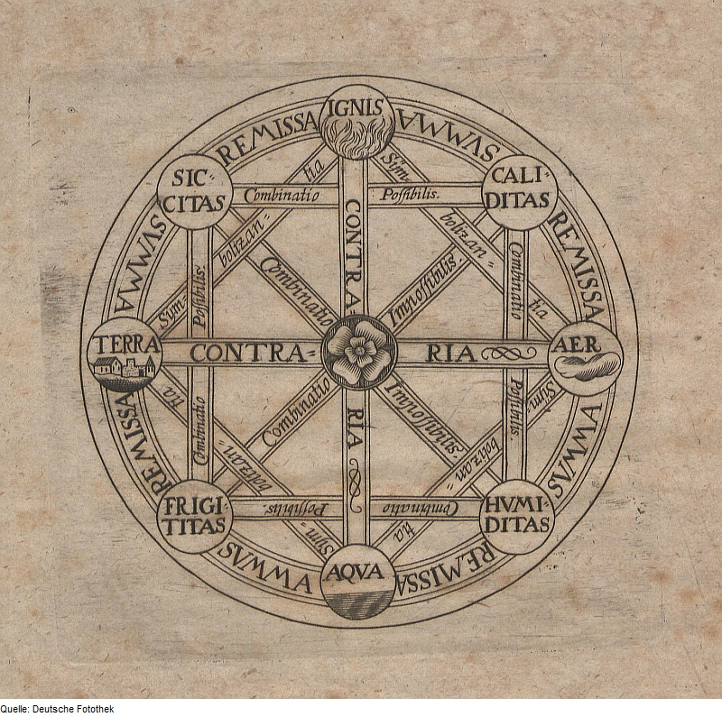 Original image description from the Deutsche Fotothek Mathematik & Kombinatorik